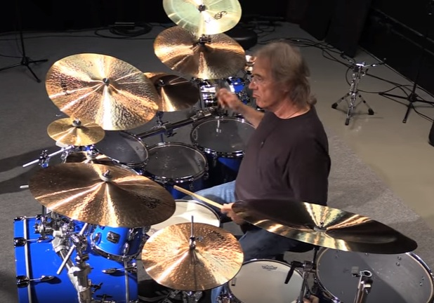 Brand New Restoration of Vinnie Colaiuta's Gretsch Yellow kit from the 90's